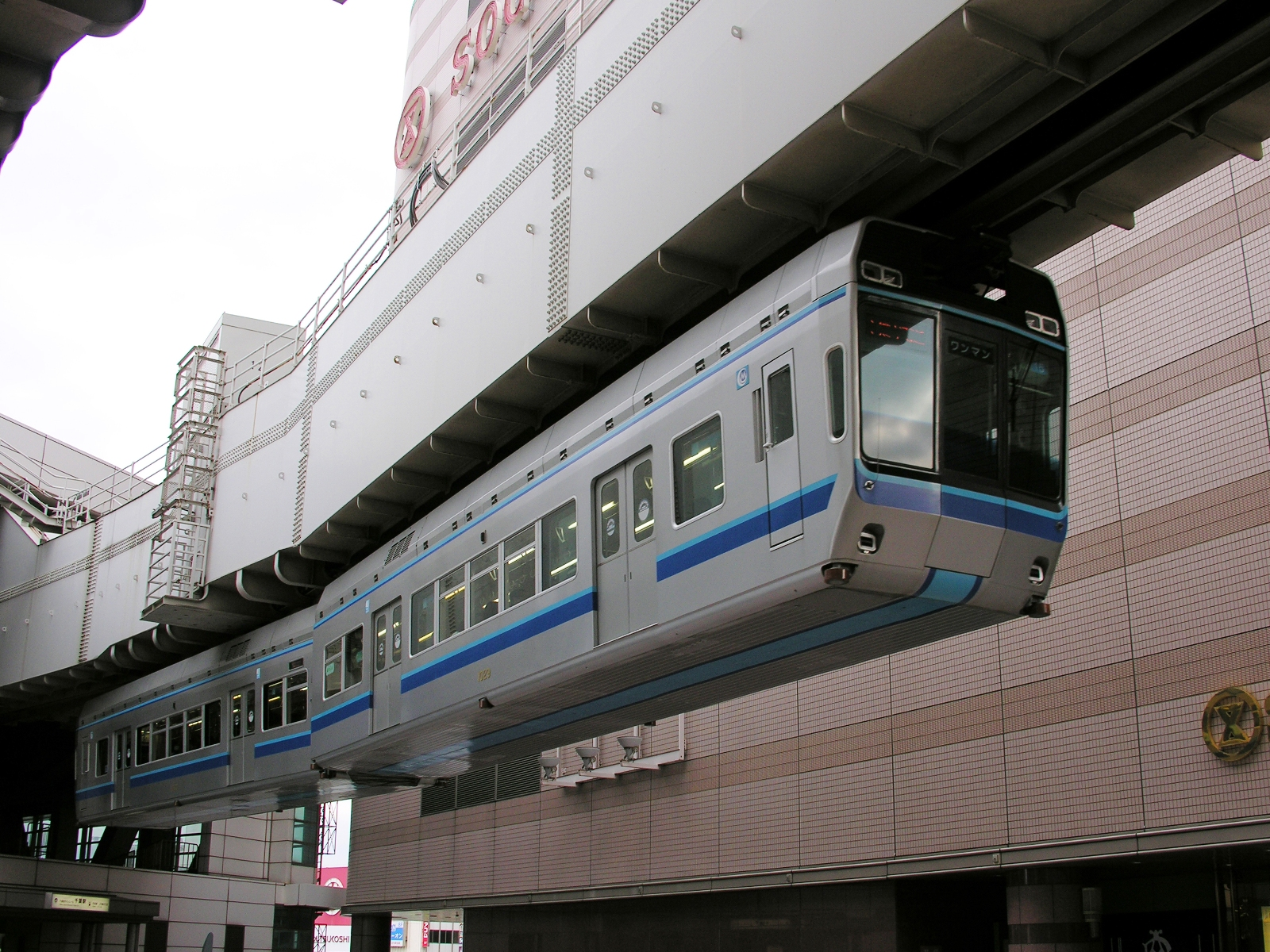 Series 1000 EC operated by Chiba Urban Monorail Co.,Ltd.